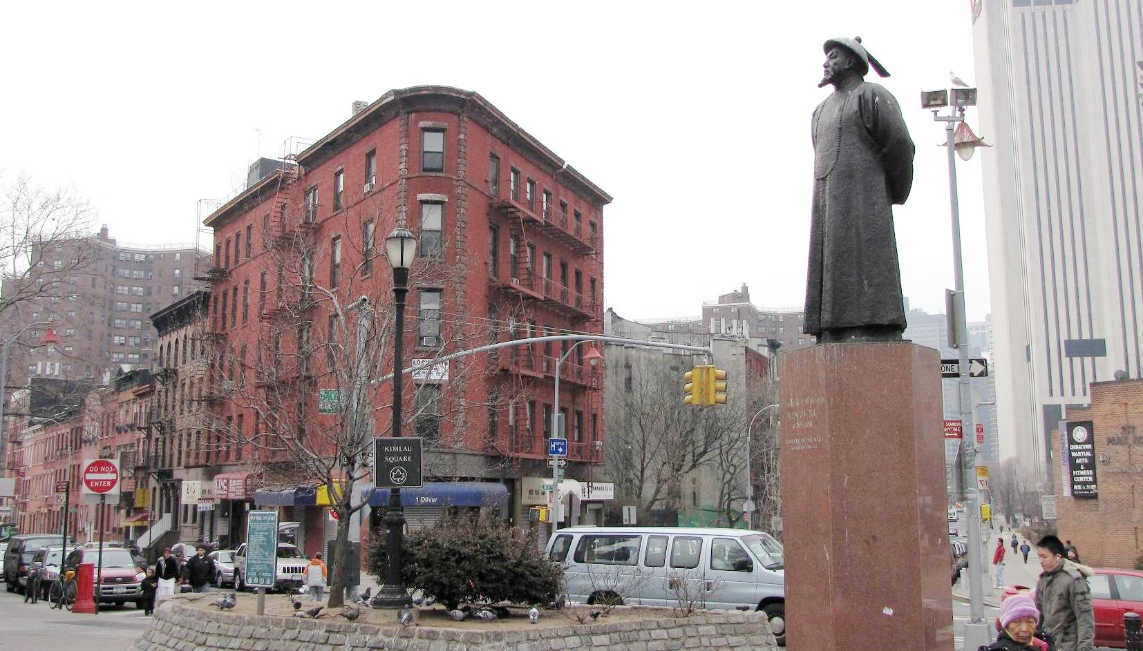 Chatham Square, East Broadway, New York City. A statue of Lin Zexu is erected there.